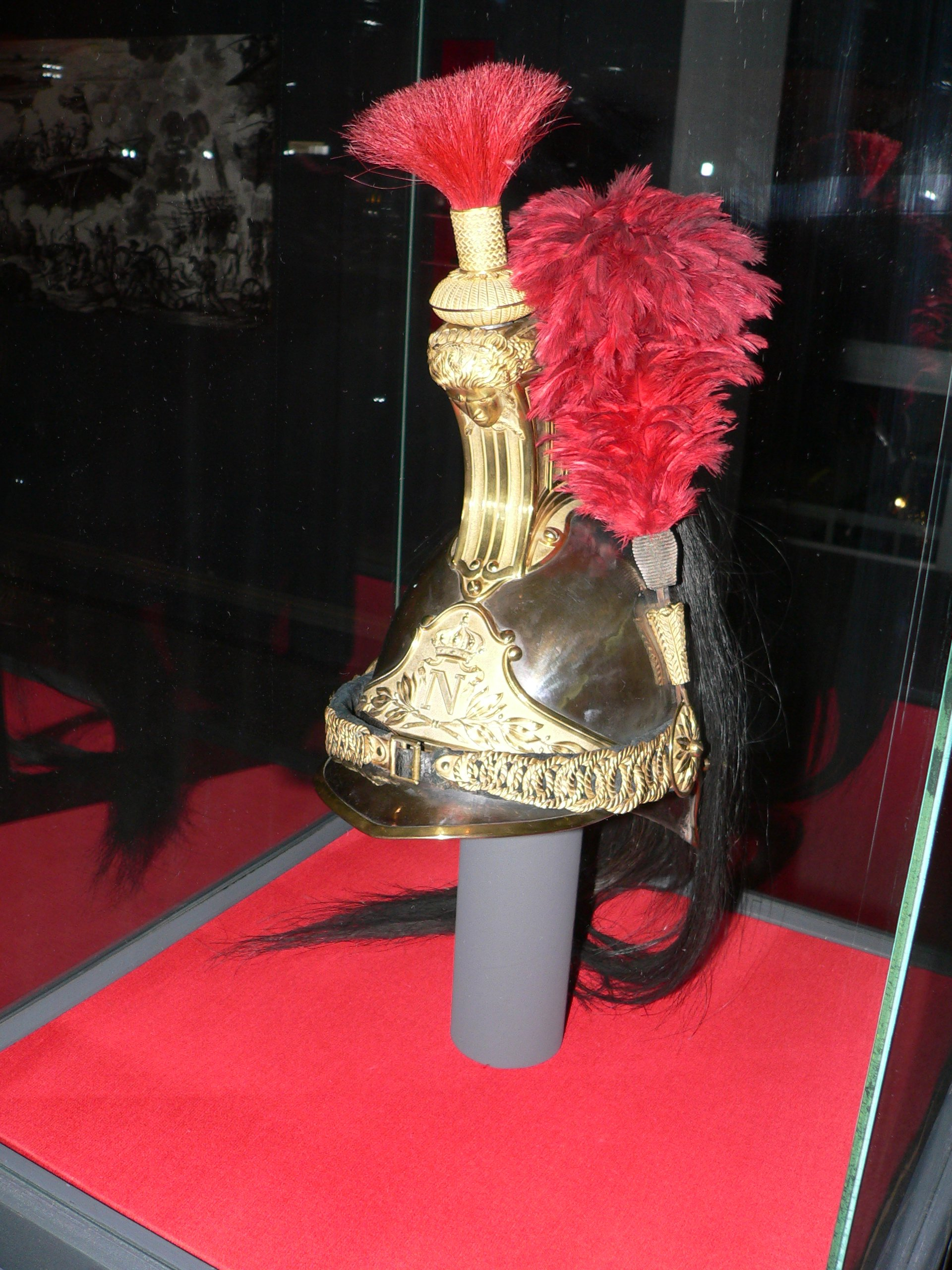 Cuirassier helemt, musee d'Art et d'Histoire de Neuchatel